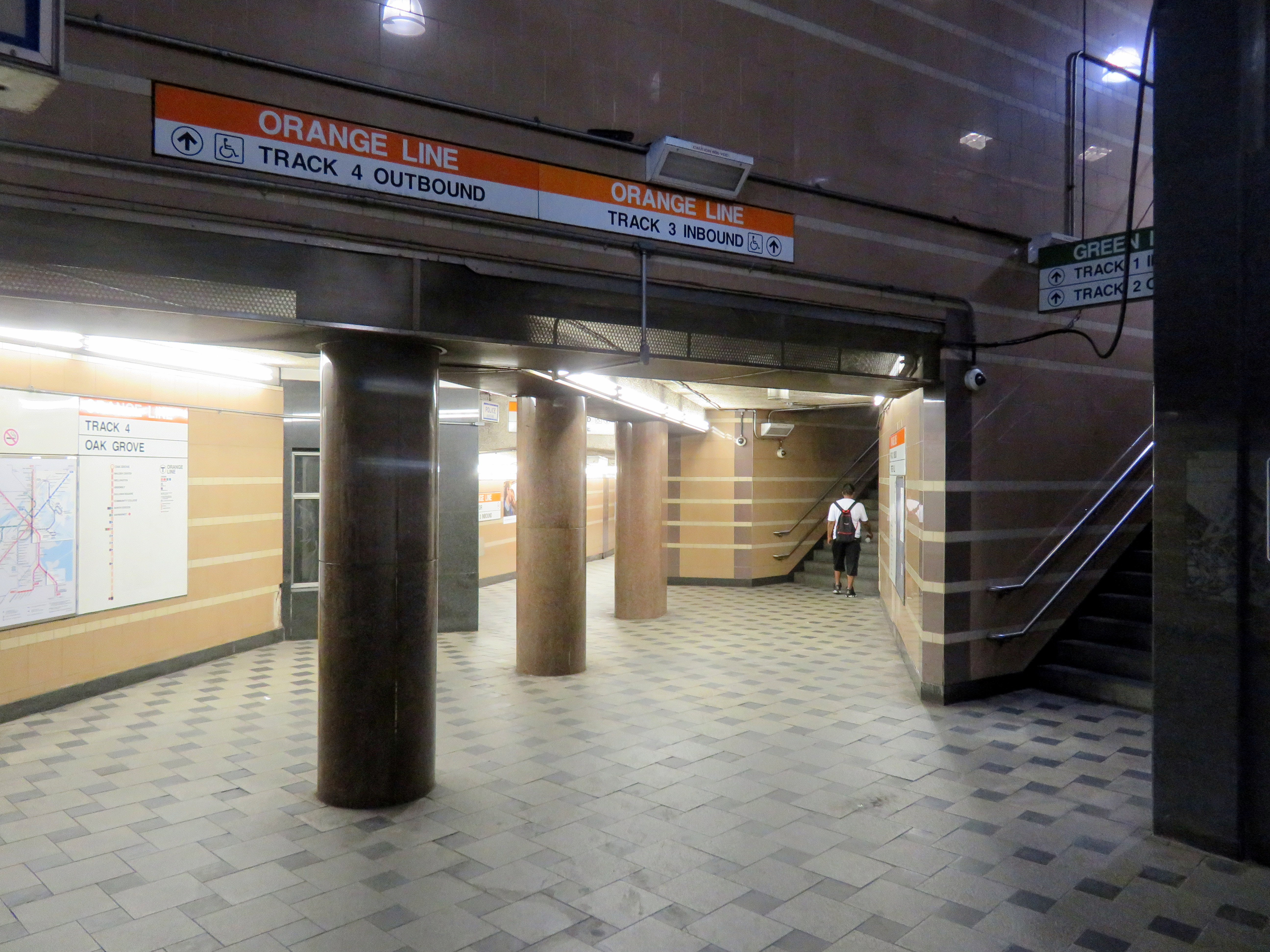 Facing towards the Orange Line in the sub-passage at Haymarket station in July 2019, with the stairs to the Green Line at right.